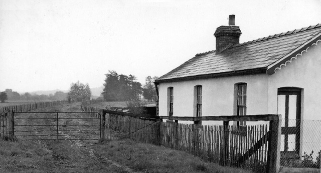 Site/Remains of Bacton Station, Golden Valley line. NW view along track of former GWR Pontrilas - Hay (Golden Valley line), closed December 1941 to passengers, for Goods February 1953. Building on right was probably the Station House.